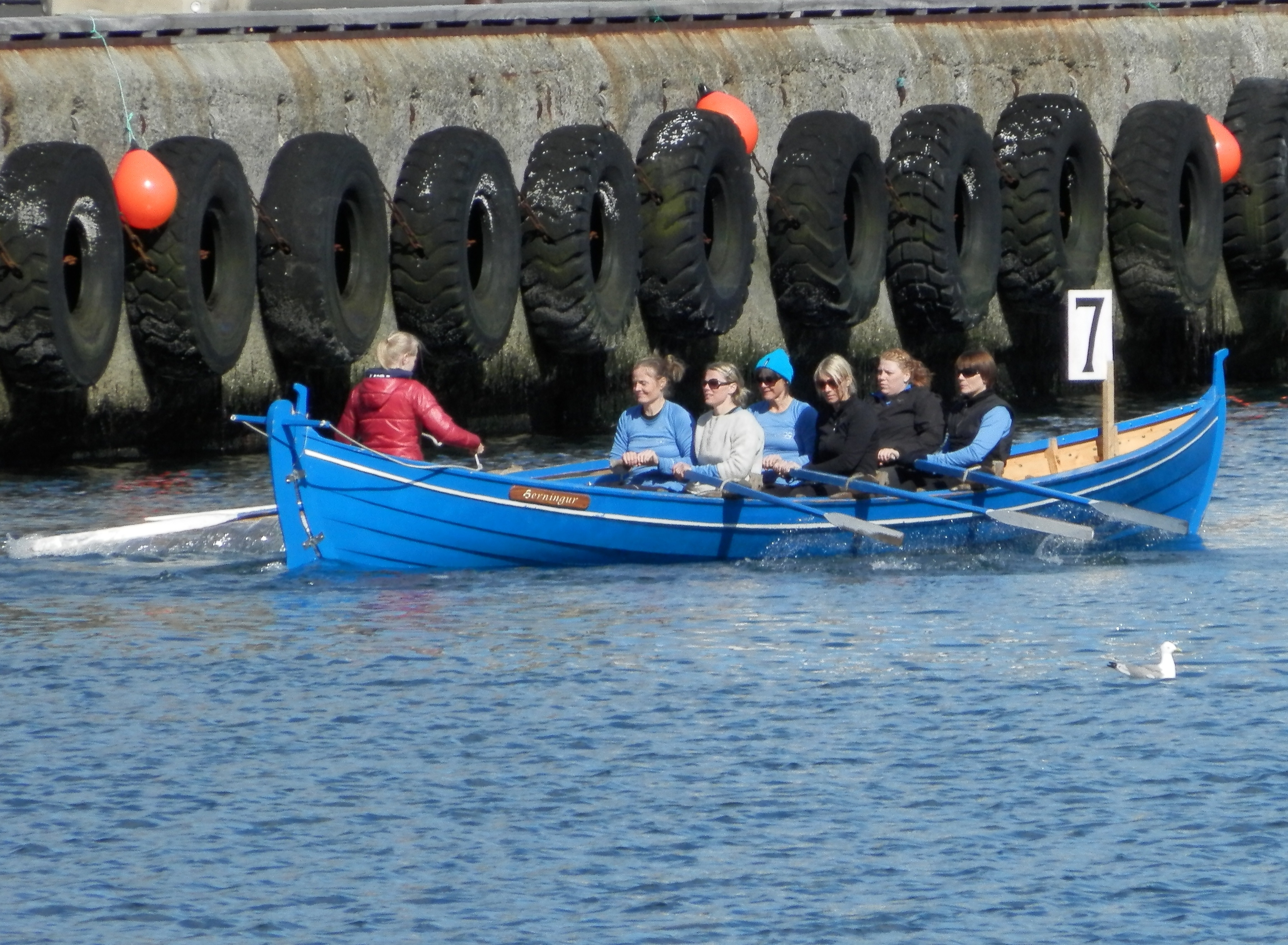 Herningur is a wooden Faroese rowing boat, a 6-mannafar. At Fjarðastevna 2012 in Vestmanna the boat participated in the category 6-mannafør kvinnur Masters, Herningur won the race with 28 seconds: 1. Herningur 05:40.13, 2. Lómur 06:08.11, 3. Gongurólvur 06:08.20. At the following race they competed with the other category, the usual one, and they became second in that race. One of the rowers was Katrin Olsen, who has competed at the Olypics in 2008 in rowing for Denmark. Føroyskt: Herningur er eitt 6-mannafar, sum Róðrarfelagið Knørrur úr Havn eigur. Henda myndin er frá Fjarðastevnu 2012, tá kvinnurnar, sum fyrr hava mannað Jarnbard mannaðu bátin til Masters róðurin hjá kvinnum. Tær fingu tó onga kapping, vóru suverent bestar við 28 sekundum, og til róðurin á Vestanstevnu vikuna eftir róðu tær ímóti teimum vanligu 6-mannaførunum við kvinnum, og har vóru tær frammanfyri tveir bátar sum hava róð nógv longri, tær gjørdust nummar tvey á Vestanstevnu.